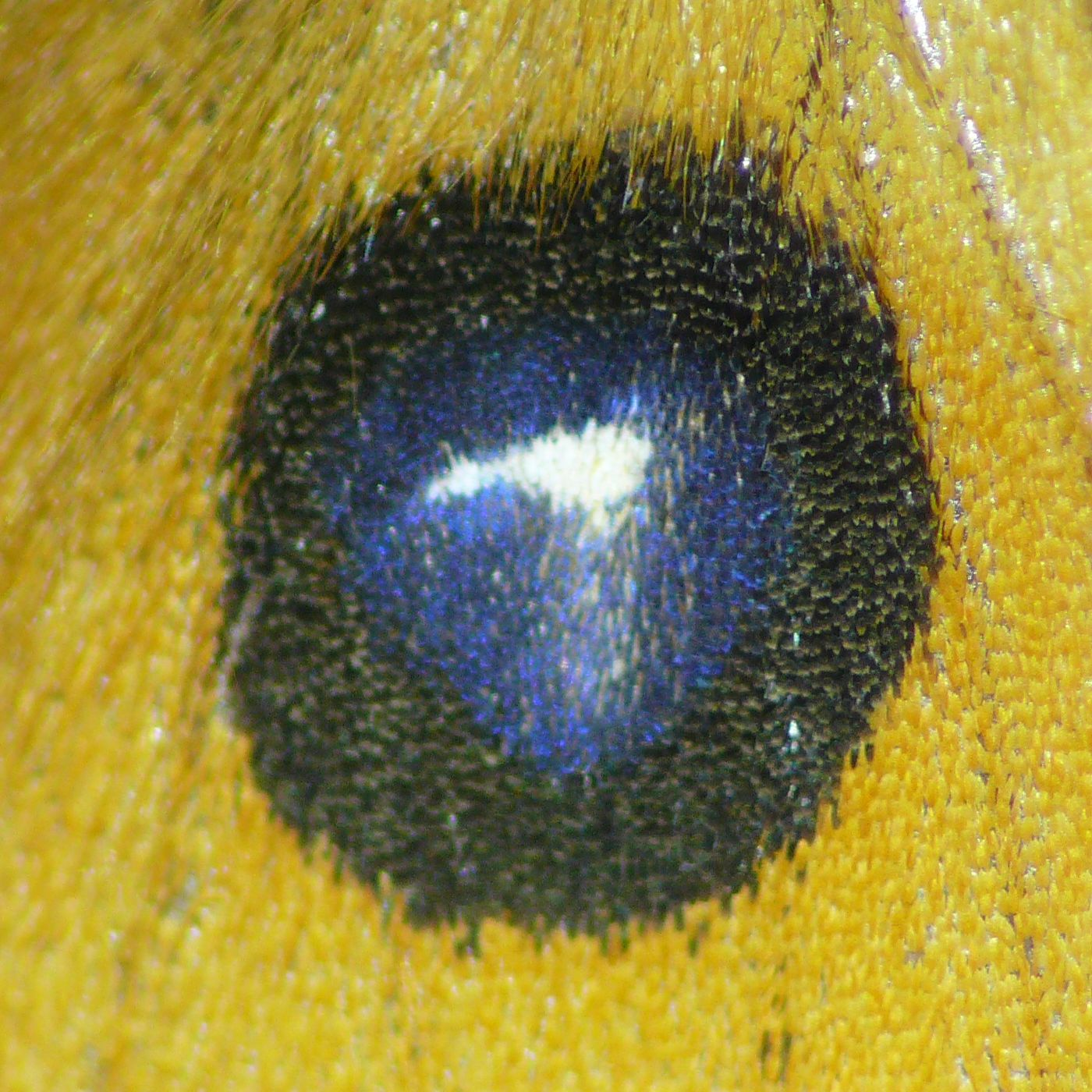 Male Tau Emperor (Aglia tau). Detail of the tau patch on the hindwing